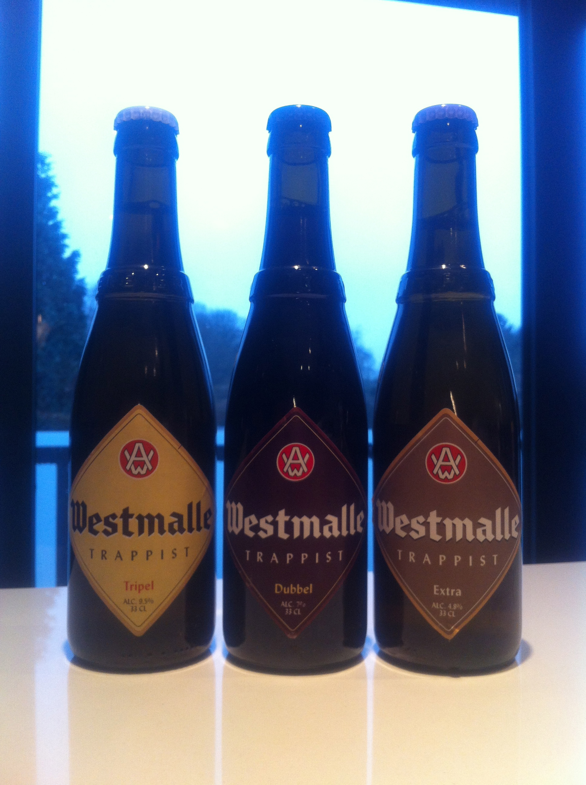 Left: Westmalle Tripel Middle: Westamlle Dubbel Right: Westmalle Extra